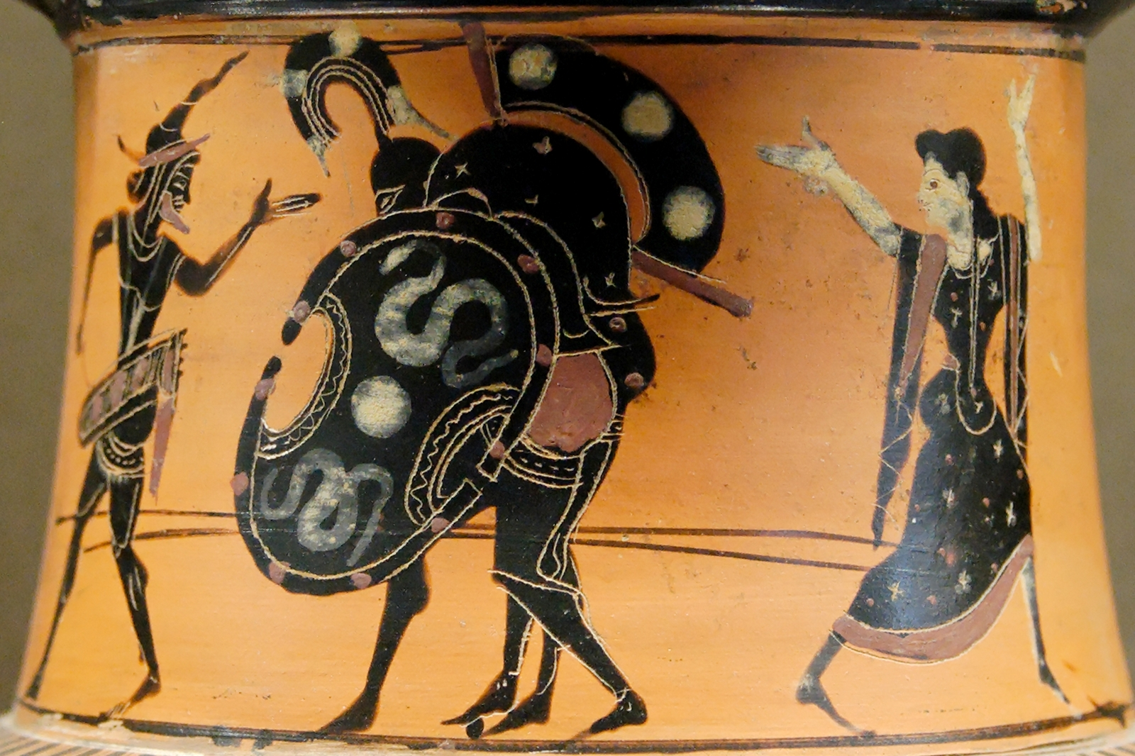 Ajax carrying the dead Achilleus, protected by Hermes (on the left) and Athena (on the right). Side 1 from an Attic black-figure neck-amphora, ca. 520-510 BC.